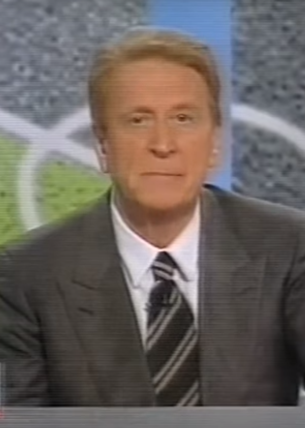 Picture of italian TV sport commenter Aldo Biscardi dated 3 July 1998